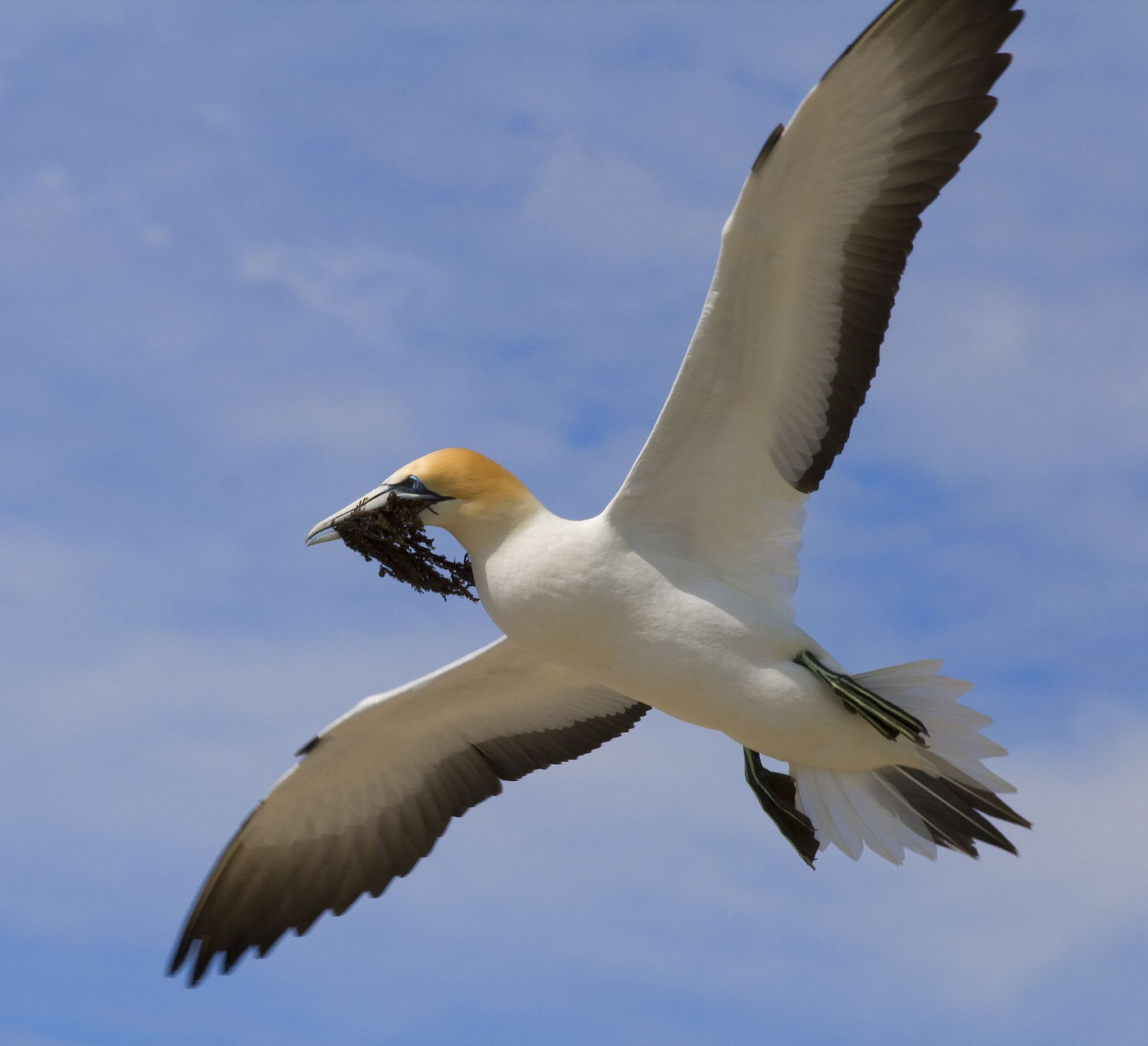 Cape Kidnappers, Morus serrator Hawke's Bay, NZ